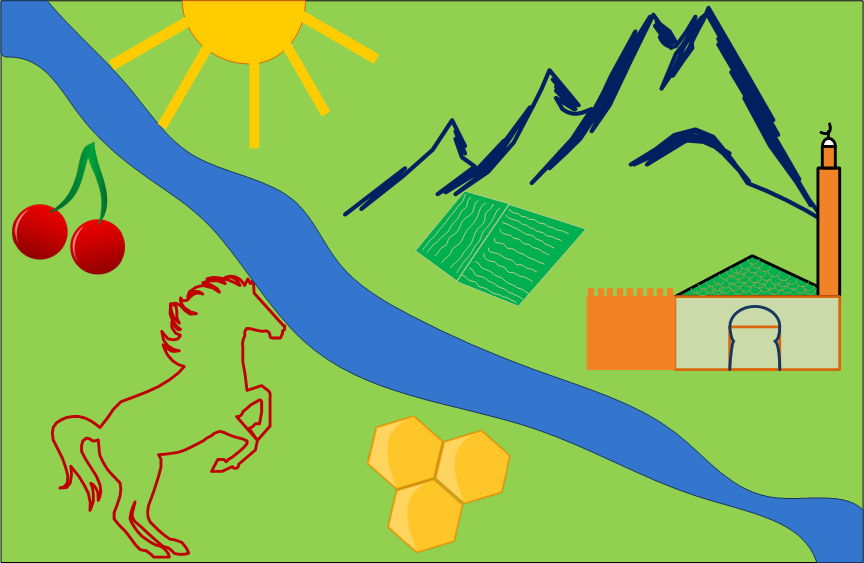 Flag of Fes Boulemane